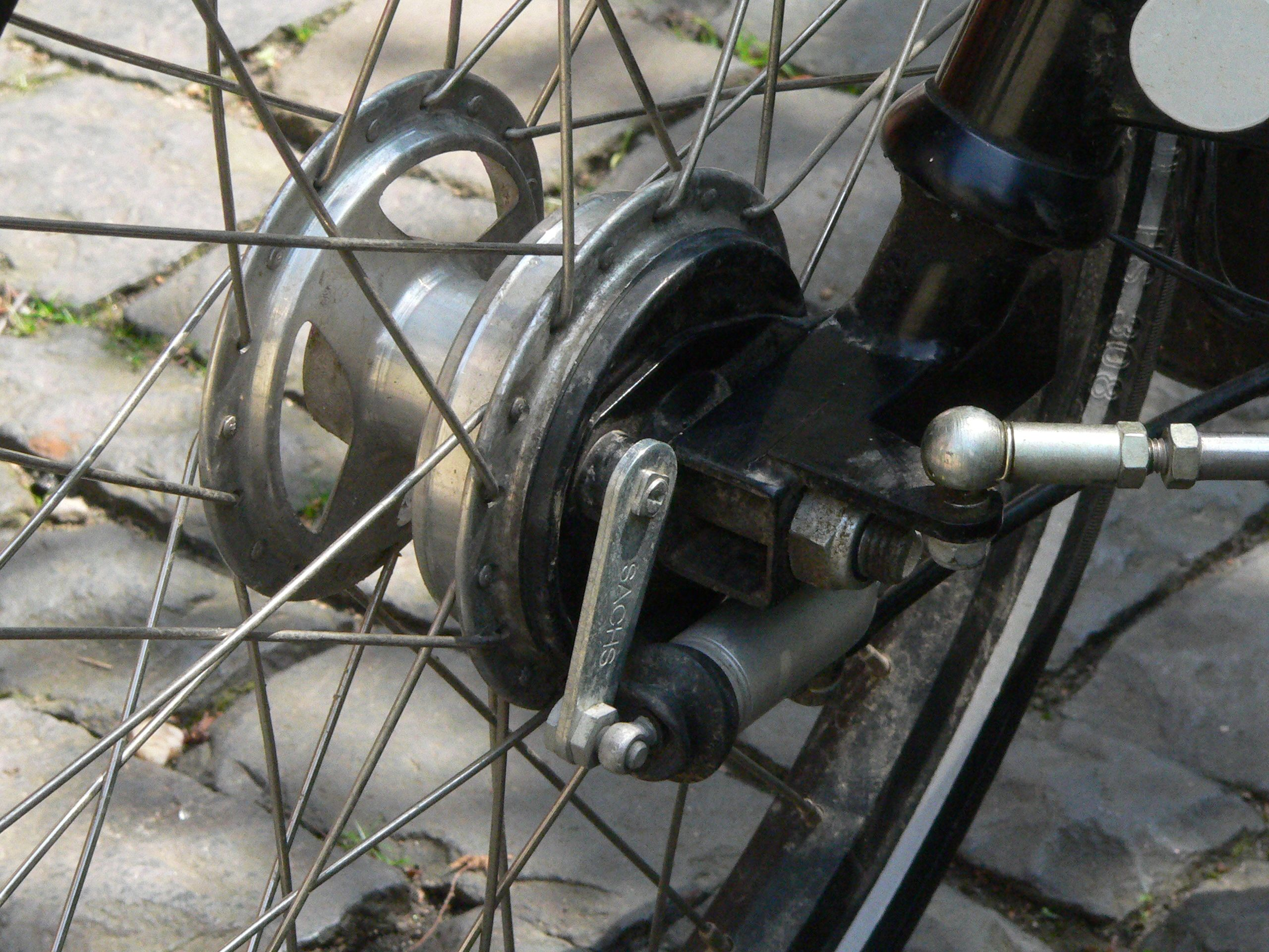 Hydraulic drumbrake at a bicycle (Anthrotech recumbent tricycle)